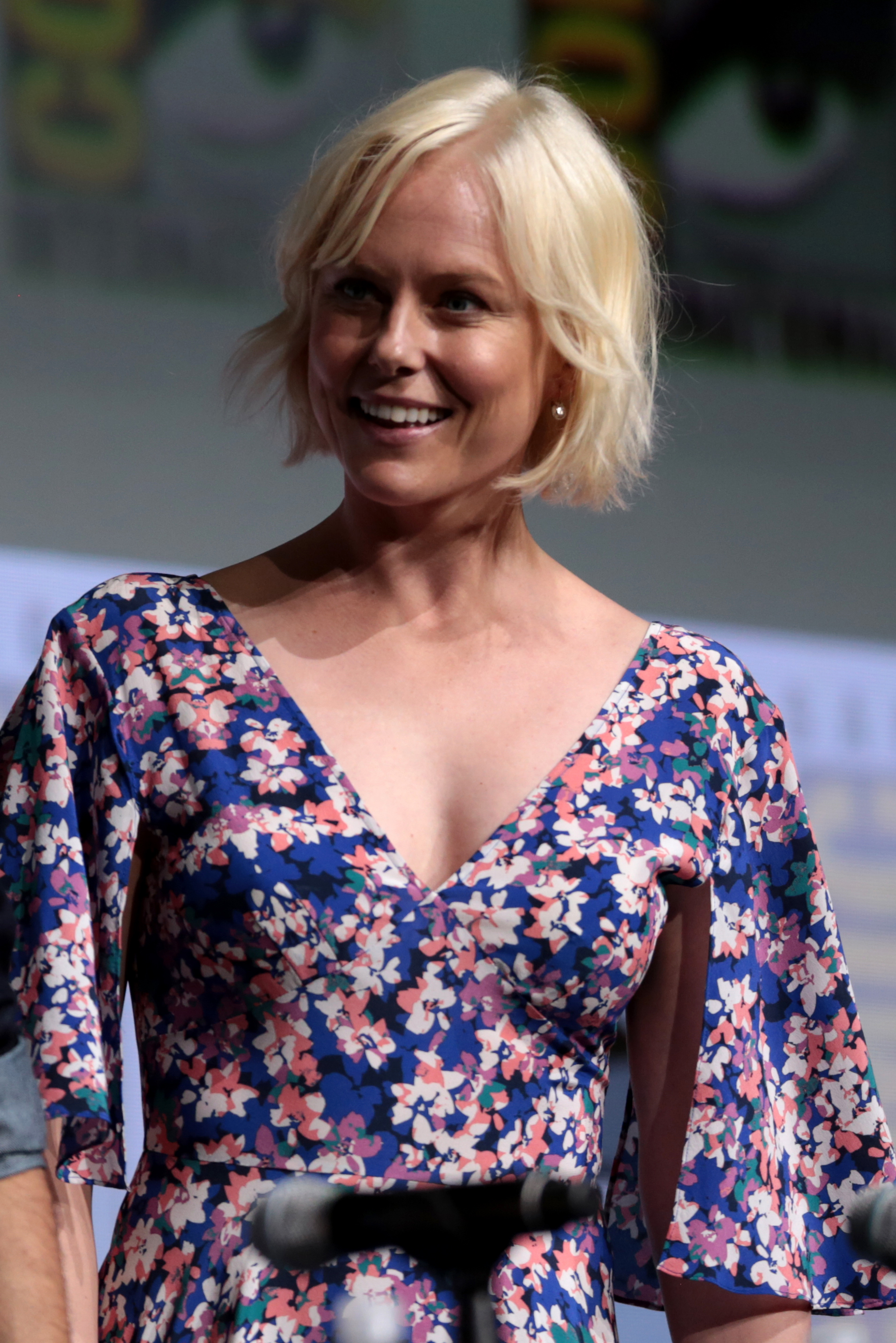 Ingrid Bolsø Berdal speaking at the 2017 San Diego Comic-Con International in San Diego, California.